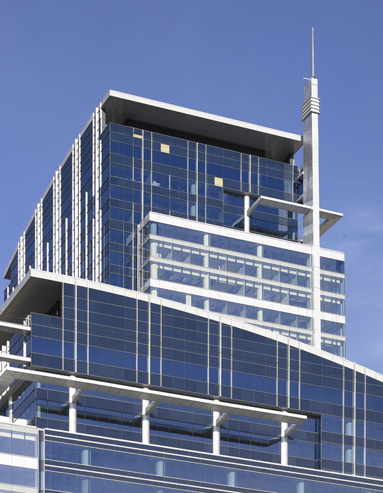 View of the roof top detail at Calgary's Centennial Place.